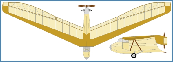 DFS 38 Quo Vadis Flying Wing